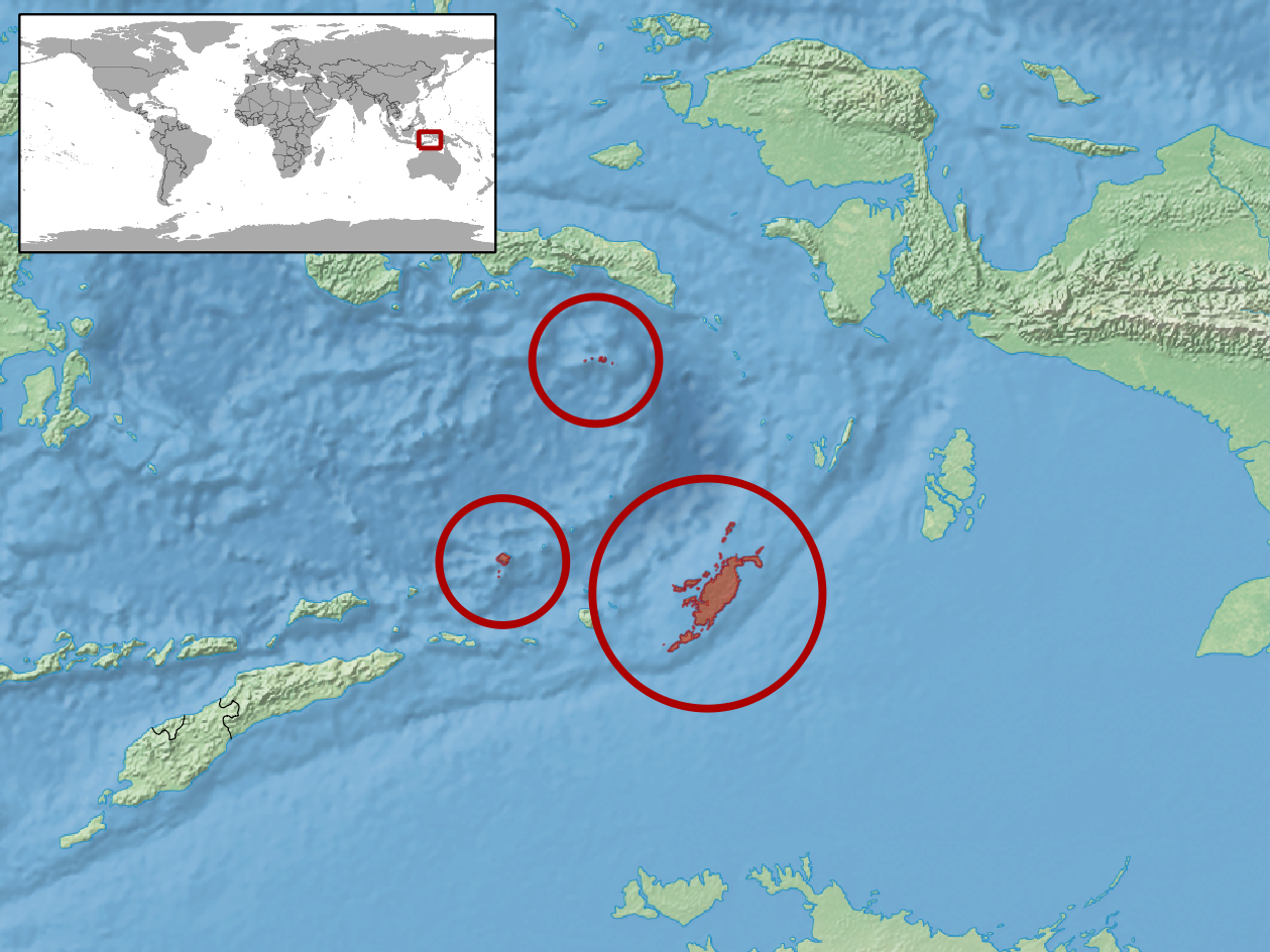 geographic distribution of Lepidodactylus oortii (Native: Indonesia (Maluku))